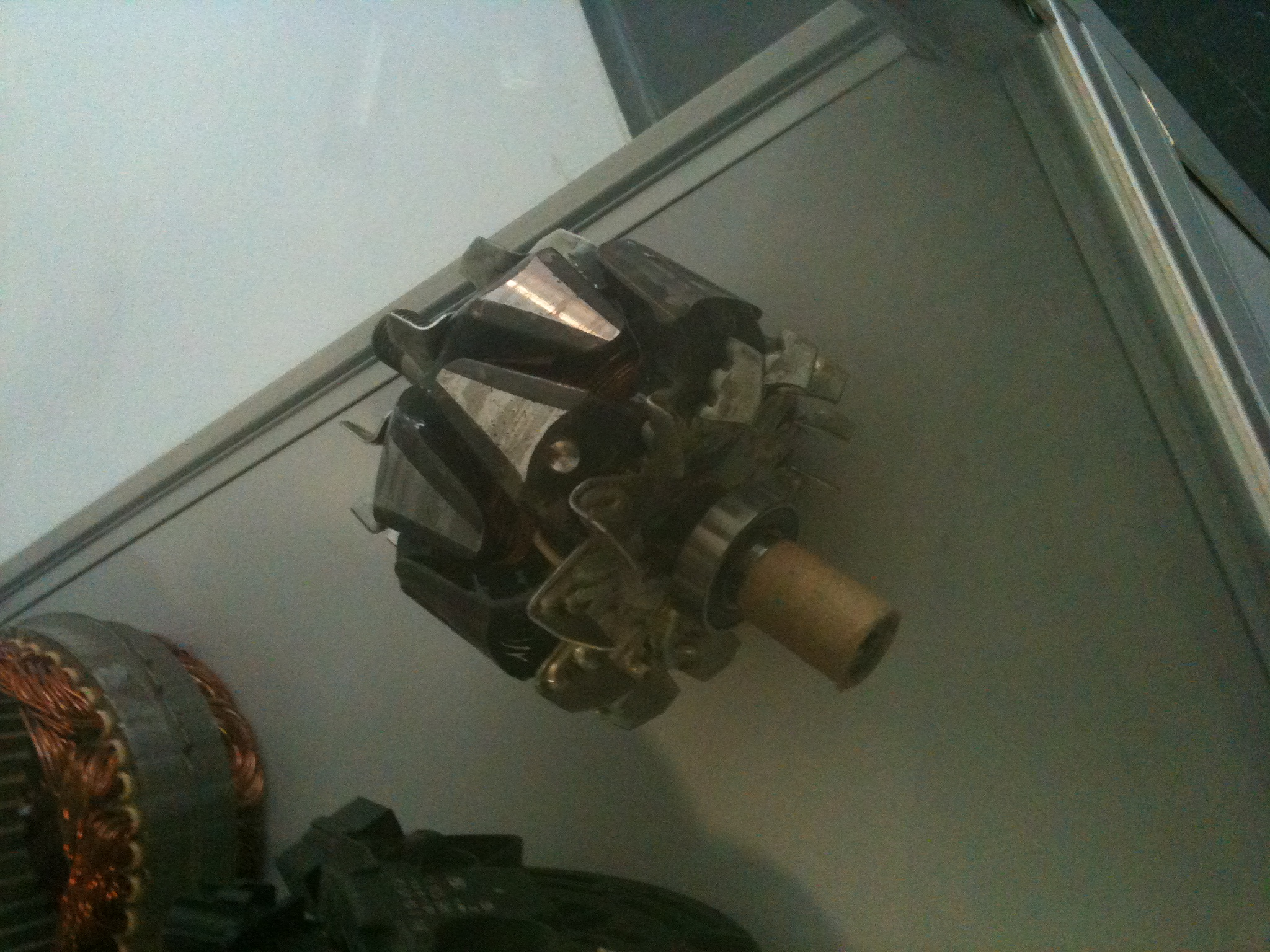 Claw Pole Rotor Alternator